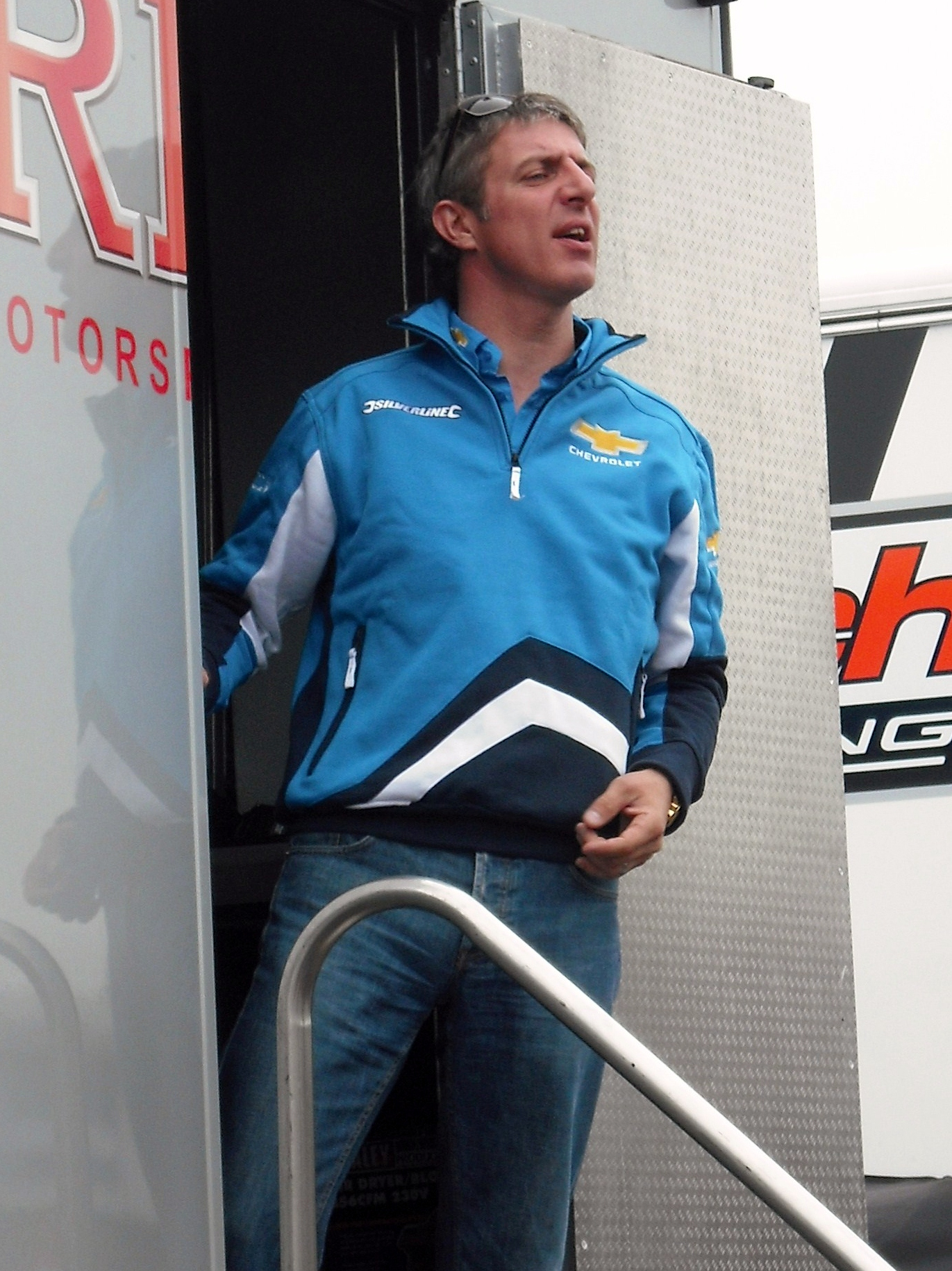 Jason Plato at the Oulton Park round of the 2010 British Touring Car Championship season as a driver for Silverline Chevrolet.